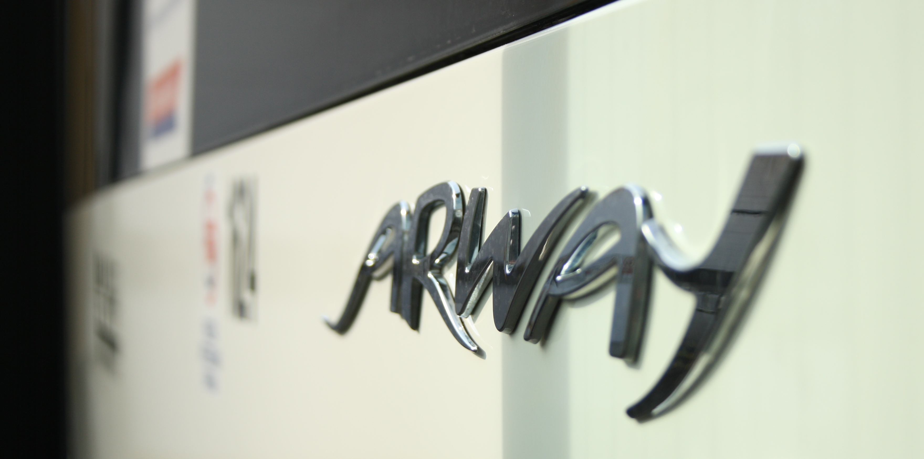 Closeup view of the Irisbus Arway logo during the presentation of ČSAD Polkost in Kostelec n/ČL, Central Bohemian Region, CZ